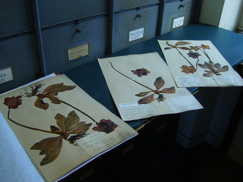 Herbarium specimens of Sarracenia purpurea deposited at the Museum National d'Histoire Naturelle in Paris, France.